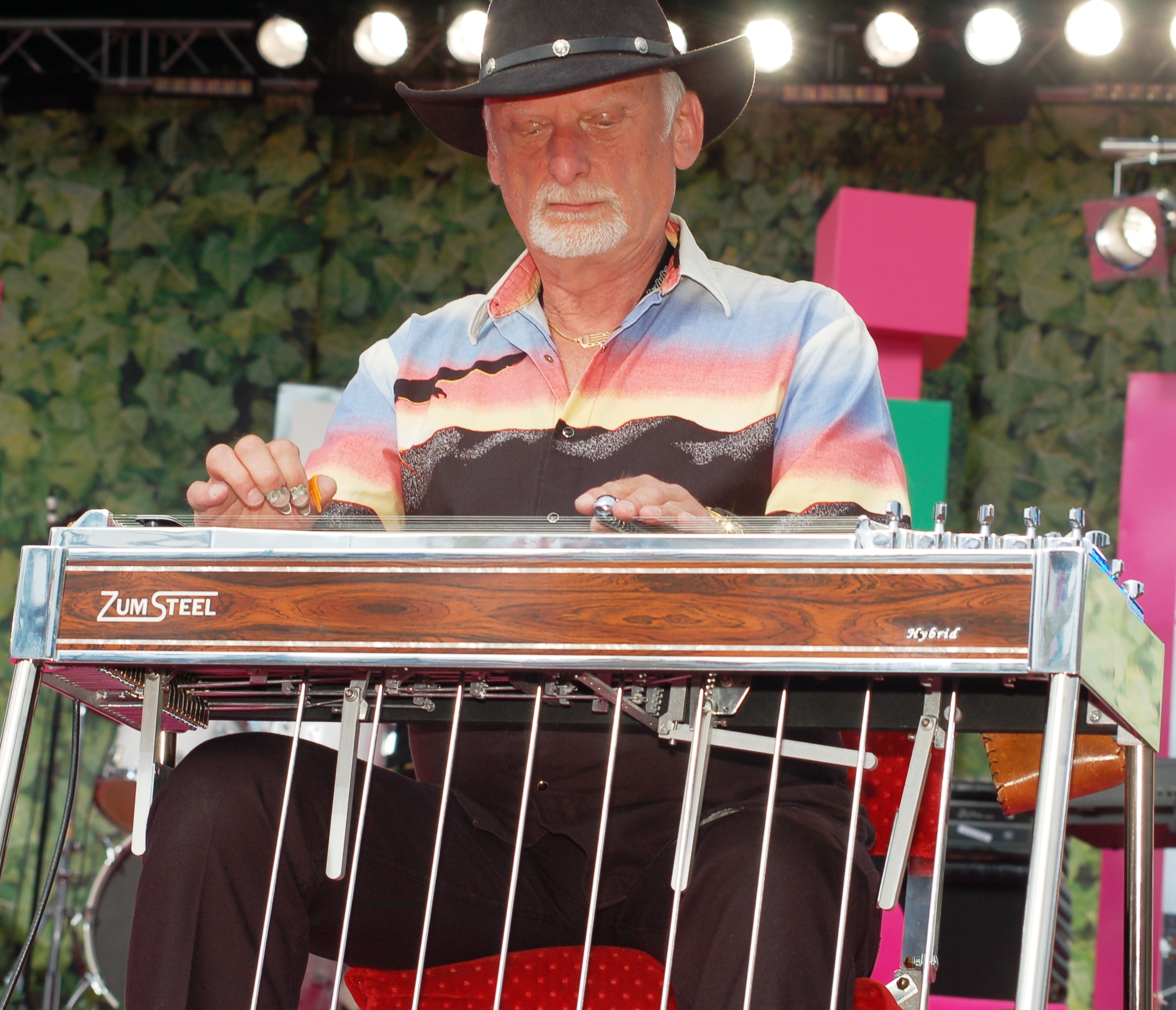 Rankarna at Gröna Lund, Sommarkrysset